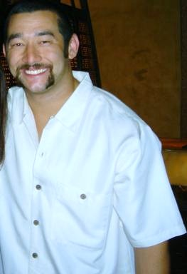 A picture of James Yun I took at a Smackdown! meet and greet in Cincinnati Ohio.